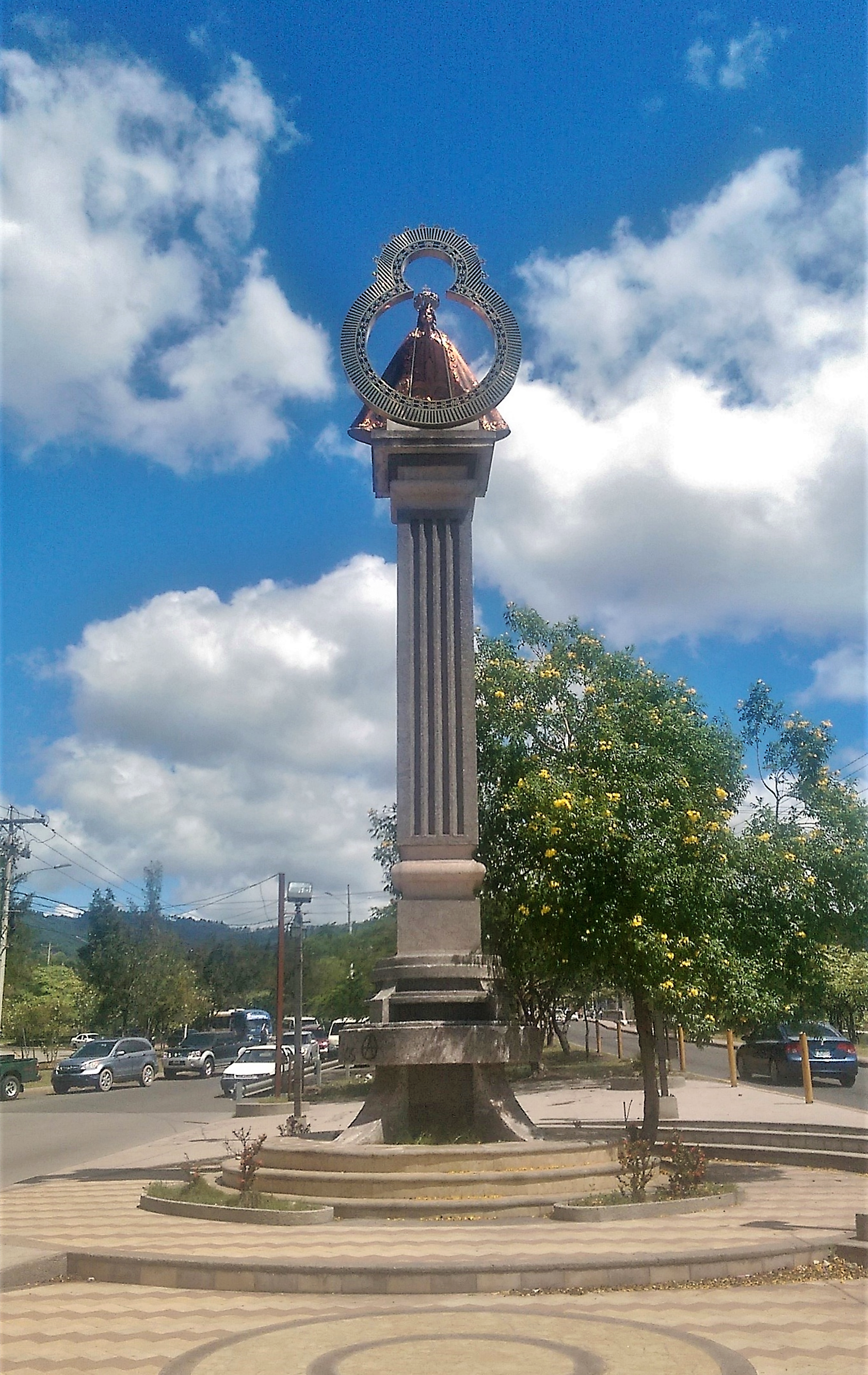 Monumento of the Virgin of Suyapa, inaugurated on January 31, 2012. An over-3m copper and bronze statue, on a concrete column, facing the first entrance of UNAH. Object location14° 04′ 56.25″ N, 87° 09′ 42.71″ W